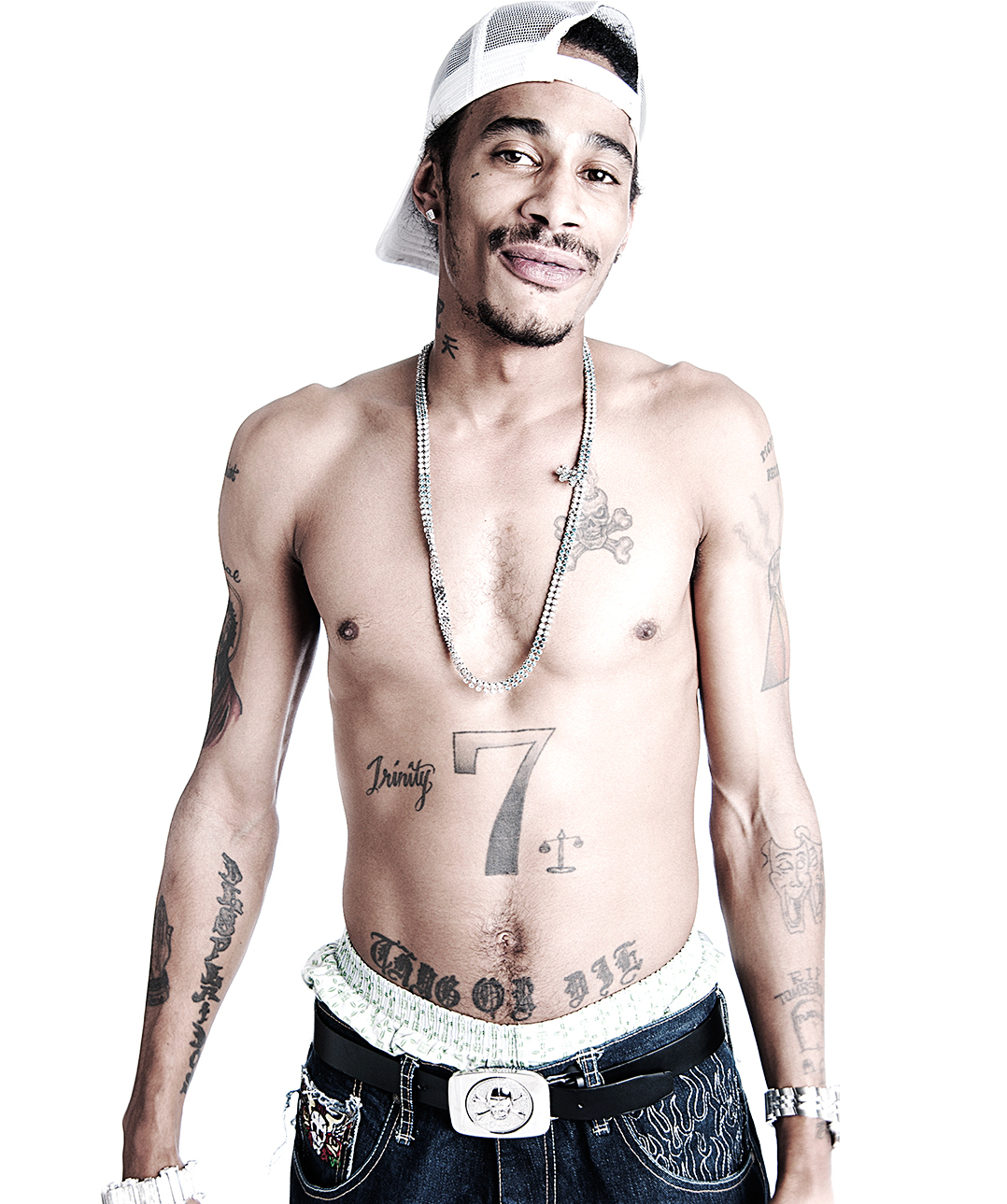 Photography by Travis Glodt. The Day after Bone Thugs N harmony Win Favorite Rap/Hip-Hop Band, Duo or Group in 2007.